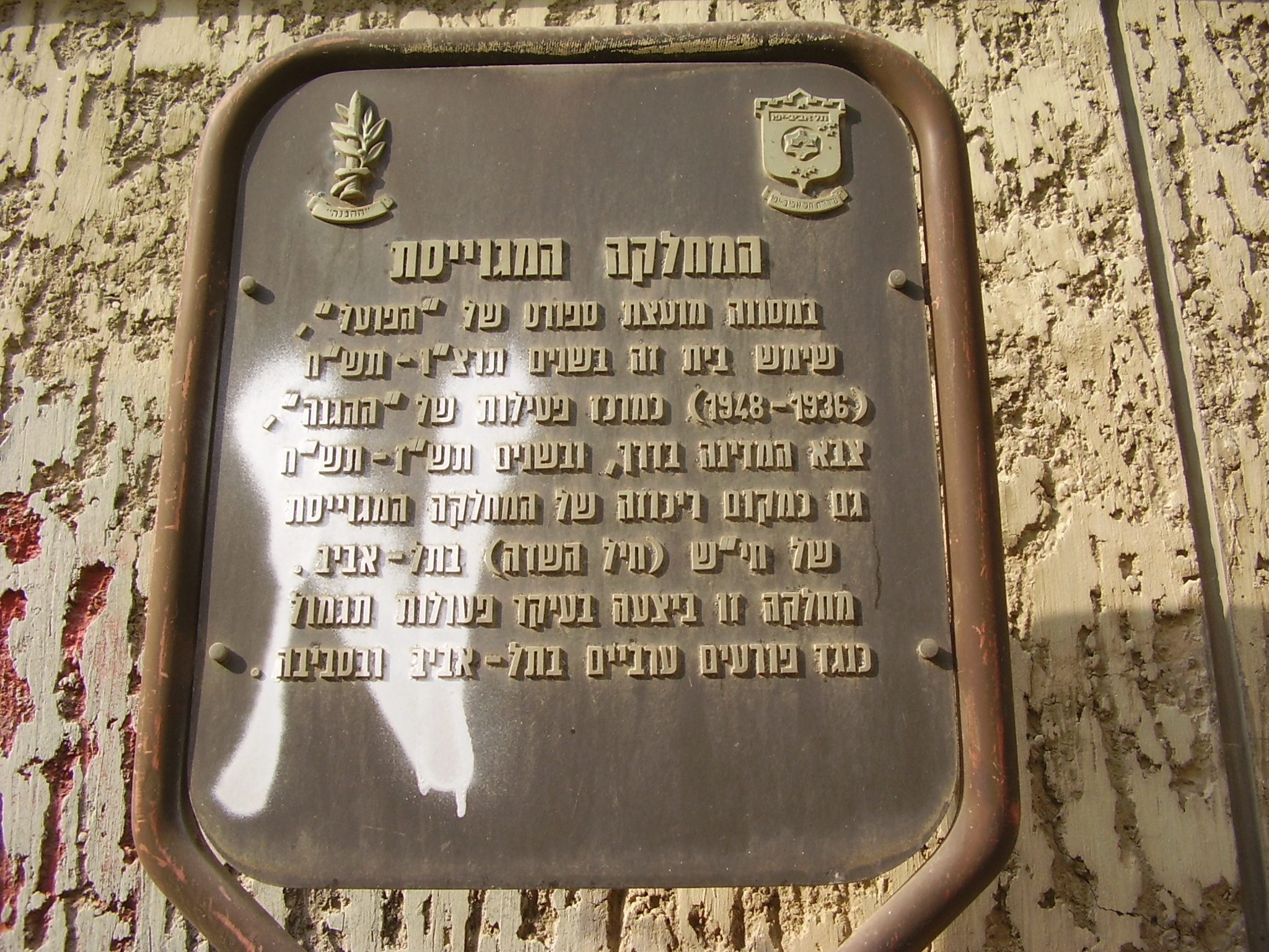 haganah memorial in nachmani str., tel aviv שלט זיכרון של ההגנה ליד אולם נחמני בתל אביב